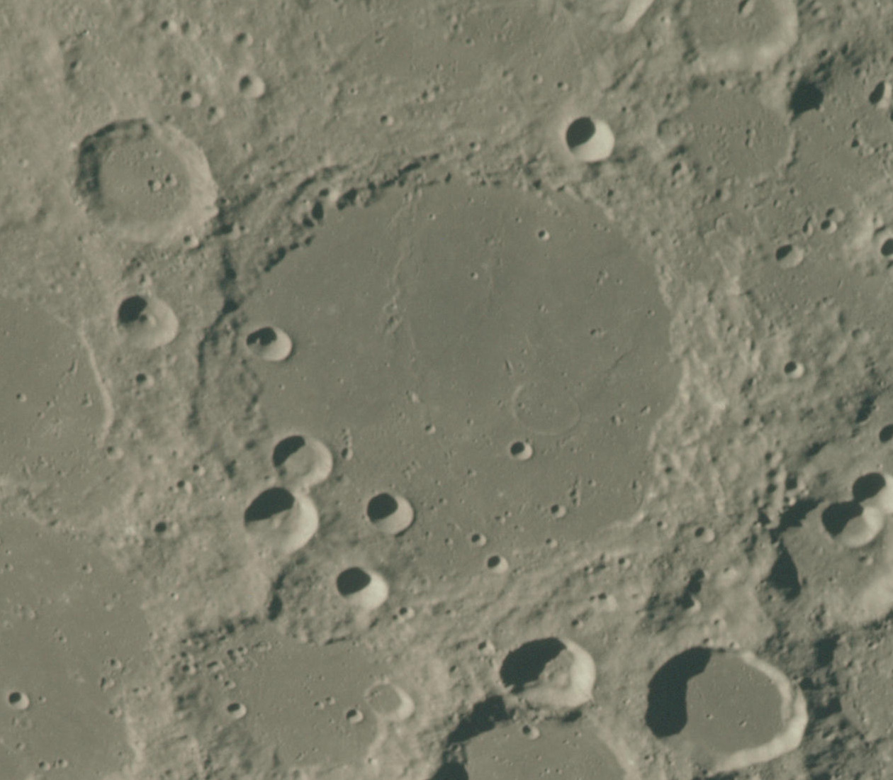 Lyot, Mare Australe, on the far side of the moon. North at top.